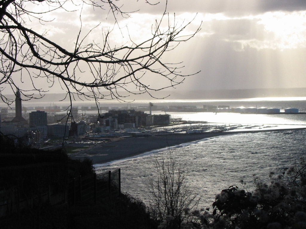 Rain on River Seine's estuary: Le Havre